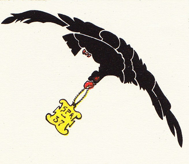 Initial SPA 73 logo